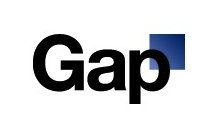 GAP's new corporate logo